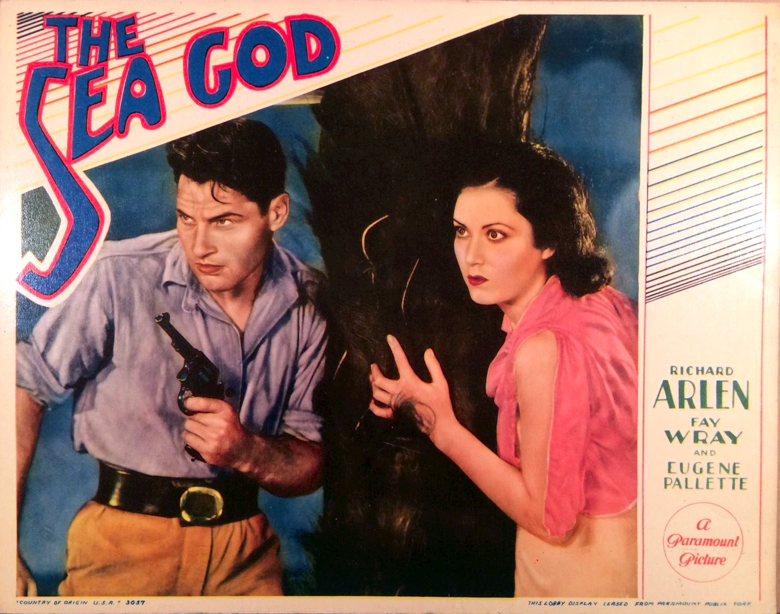 Lobby card for the American adventure film The Sea God (1930). There are no copyright marks on the card. At bottom left is Country of origin USA 3057. At bottom right is this lobby display leased from Paramount Publix Corp.